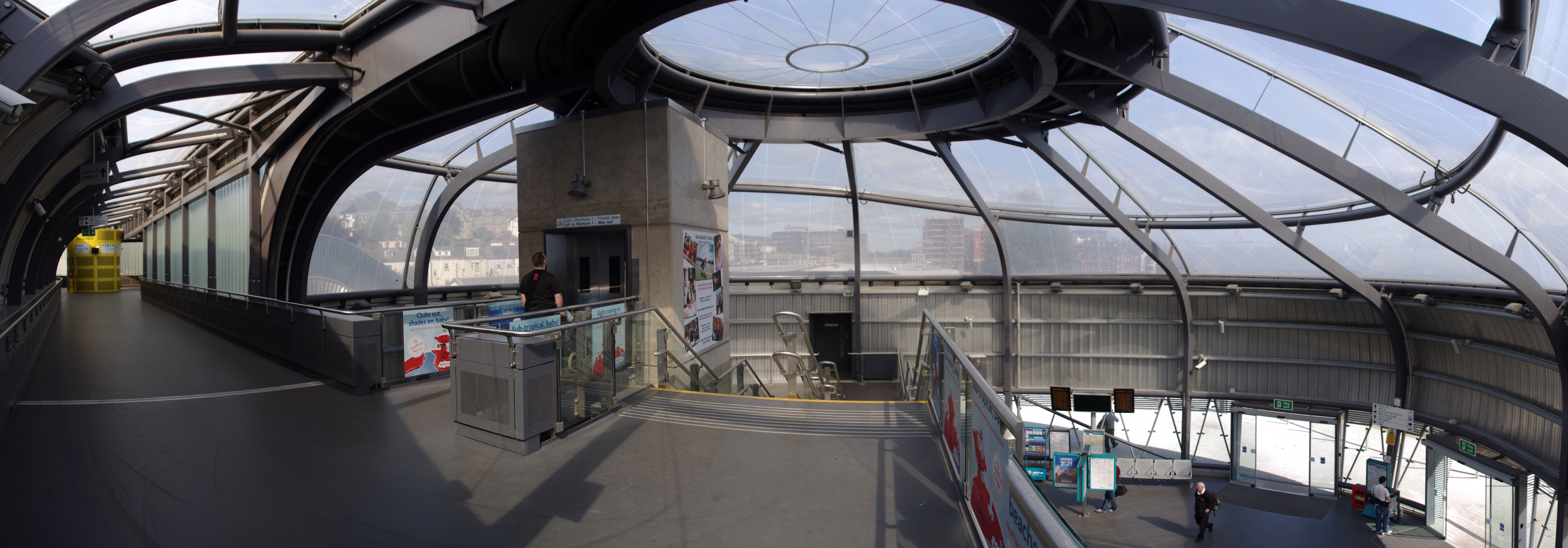 Panorama of the south stairwell of the new overbridge at Newport railway station.